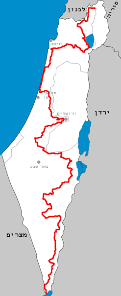 Israel National Trail Locator map